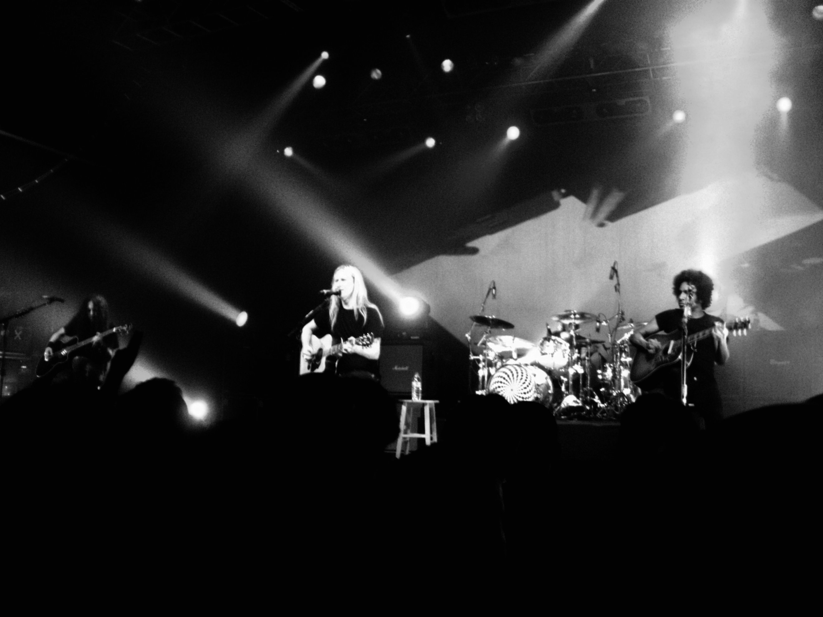 Alice in Chains live in November 16, 2009